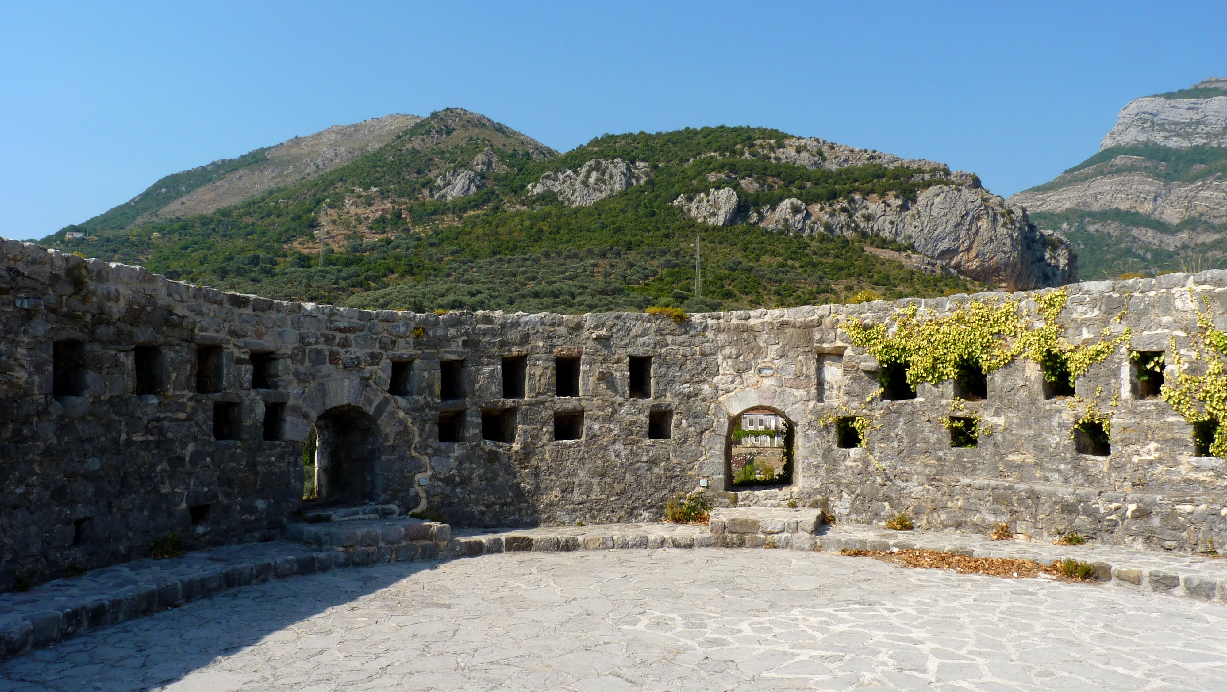 Stari Bar is a ruined city in Montenegro